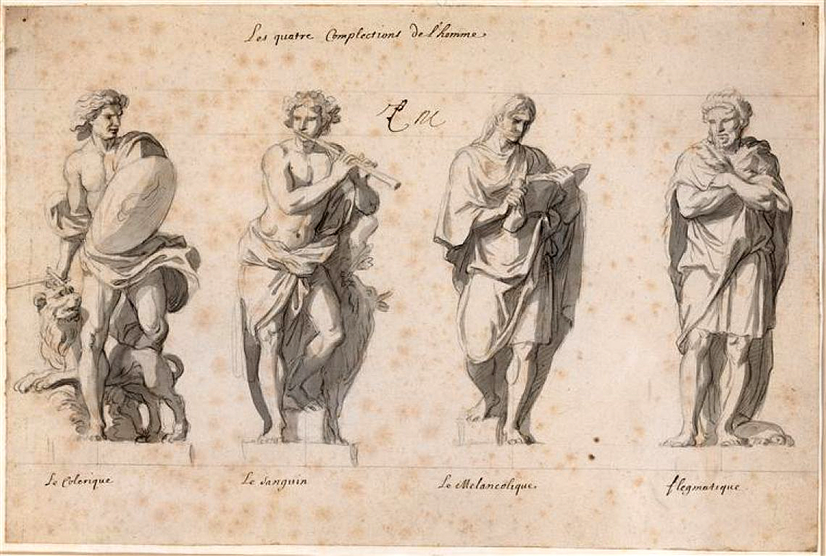 Part of the series The Four Temperaments, part of the Grande Commande.